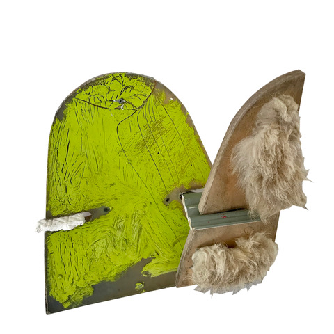 Contemporart Art mixed media sculpture by Jim Condron